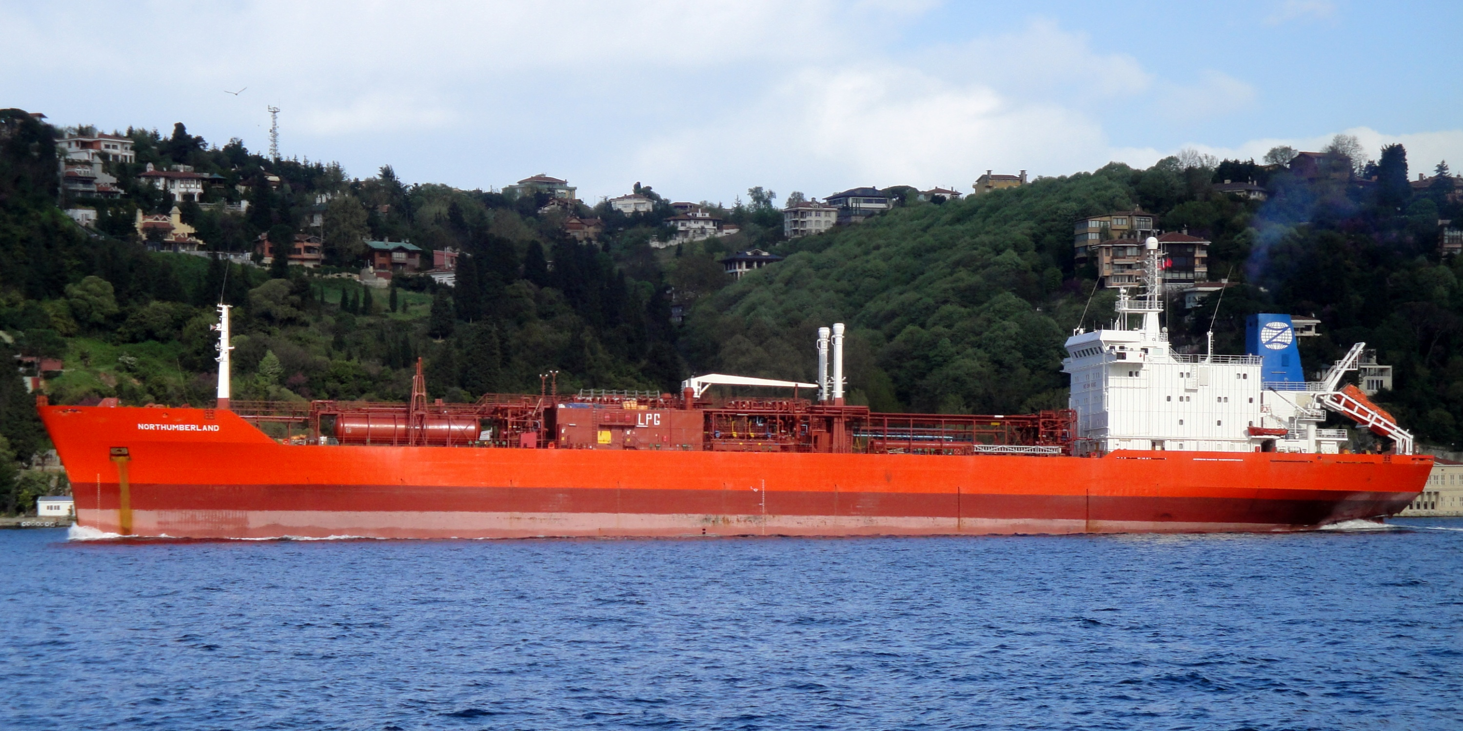 LGP tanker Northumberland (Zodiac Maritime Agencies) on the Bosphorus